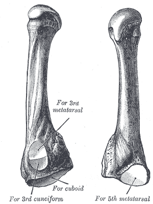 FIG. 287– The fourth metatarsal. (Left.)